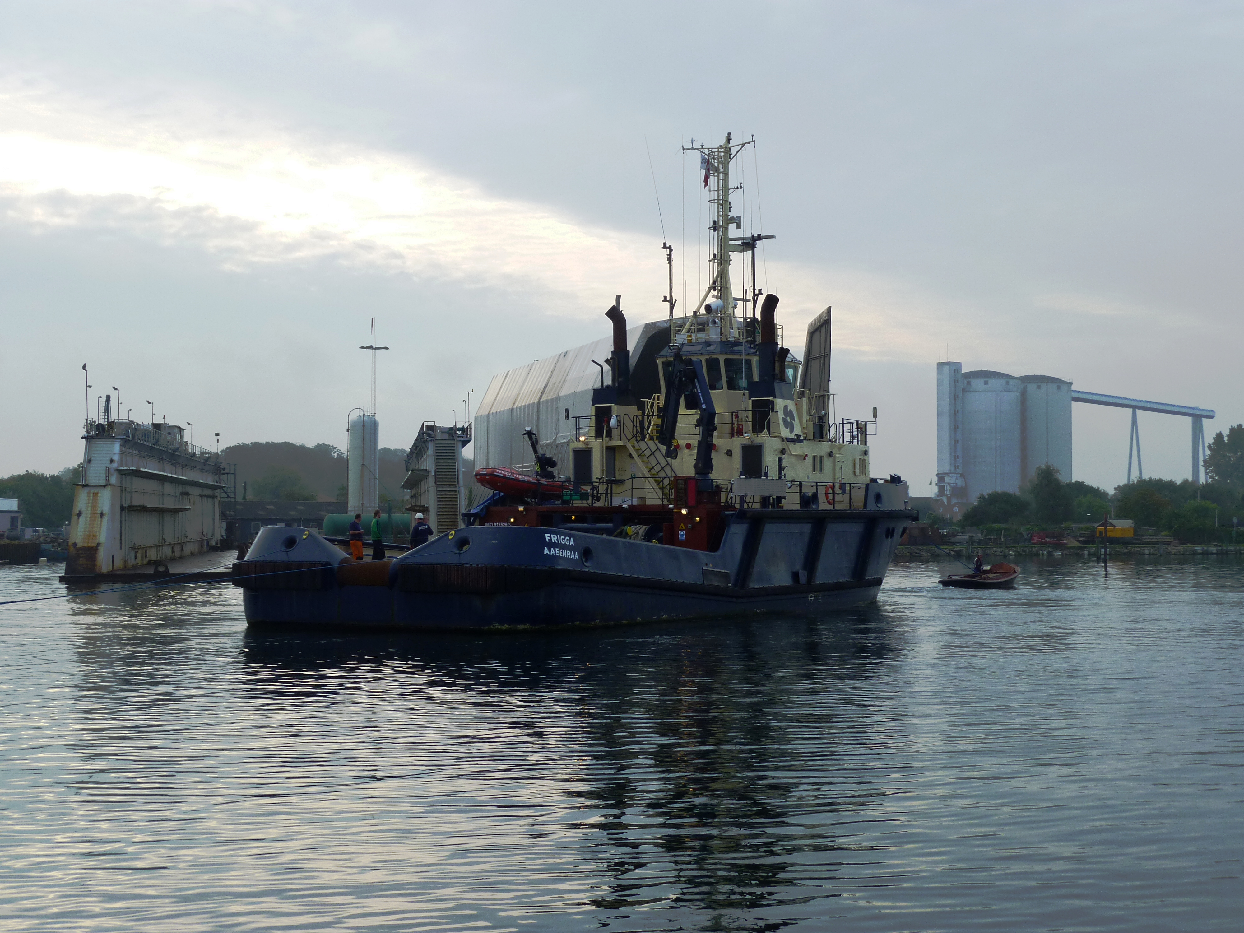 Seagoing tugboat Frigga being dragged into a covered dock in the port of Assens